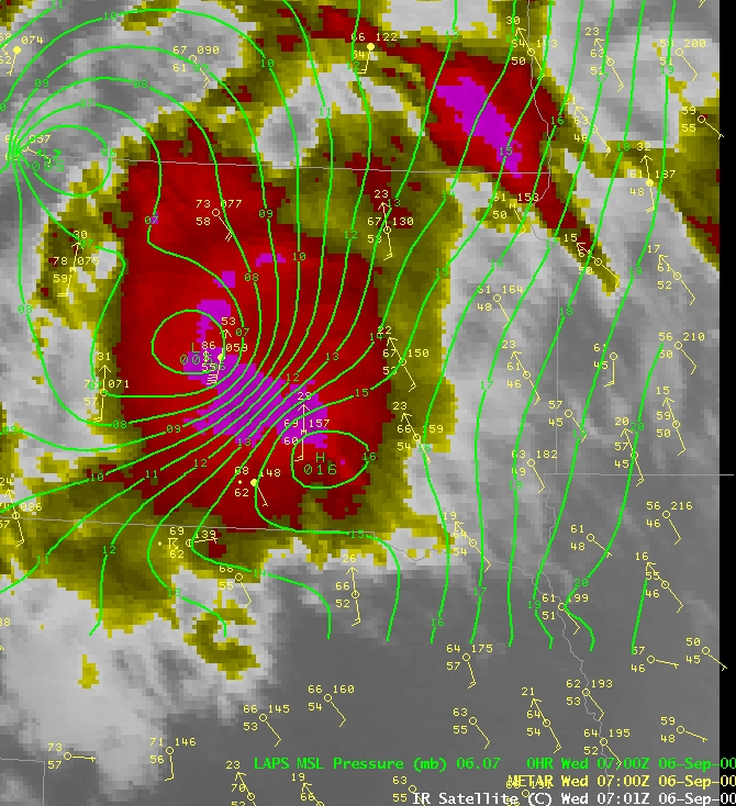 Image showing surface observations and isobars superimposed on an IR satellite image, showing the relationship between a mesoscale high and a wake low